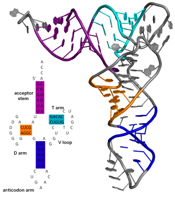 Secondary and Tertiary Structure of pdb 6tna rendered with PyMol (DeLano Scientific Freeware)